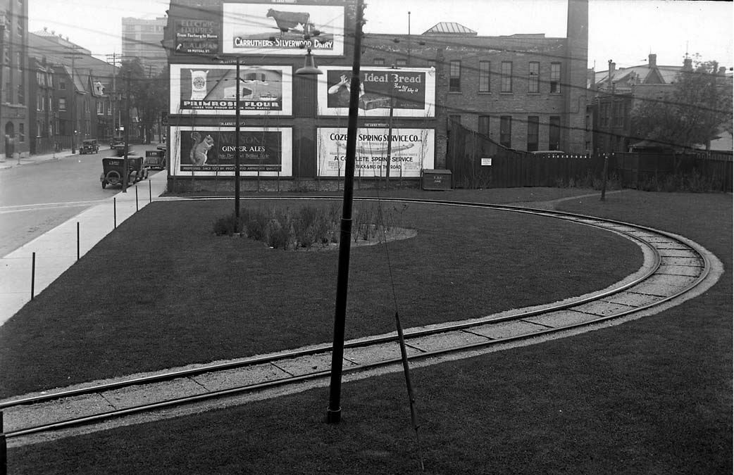 A photograph looking at the Mutual streetcar loop, which opened in 1929 and was situated on the east side of Mutual Street, half a block north of Queen Street. View looks north from south side of property. Toronto, Canada.